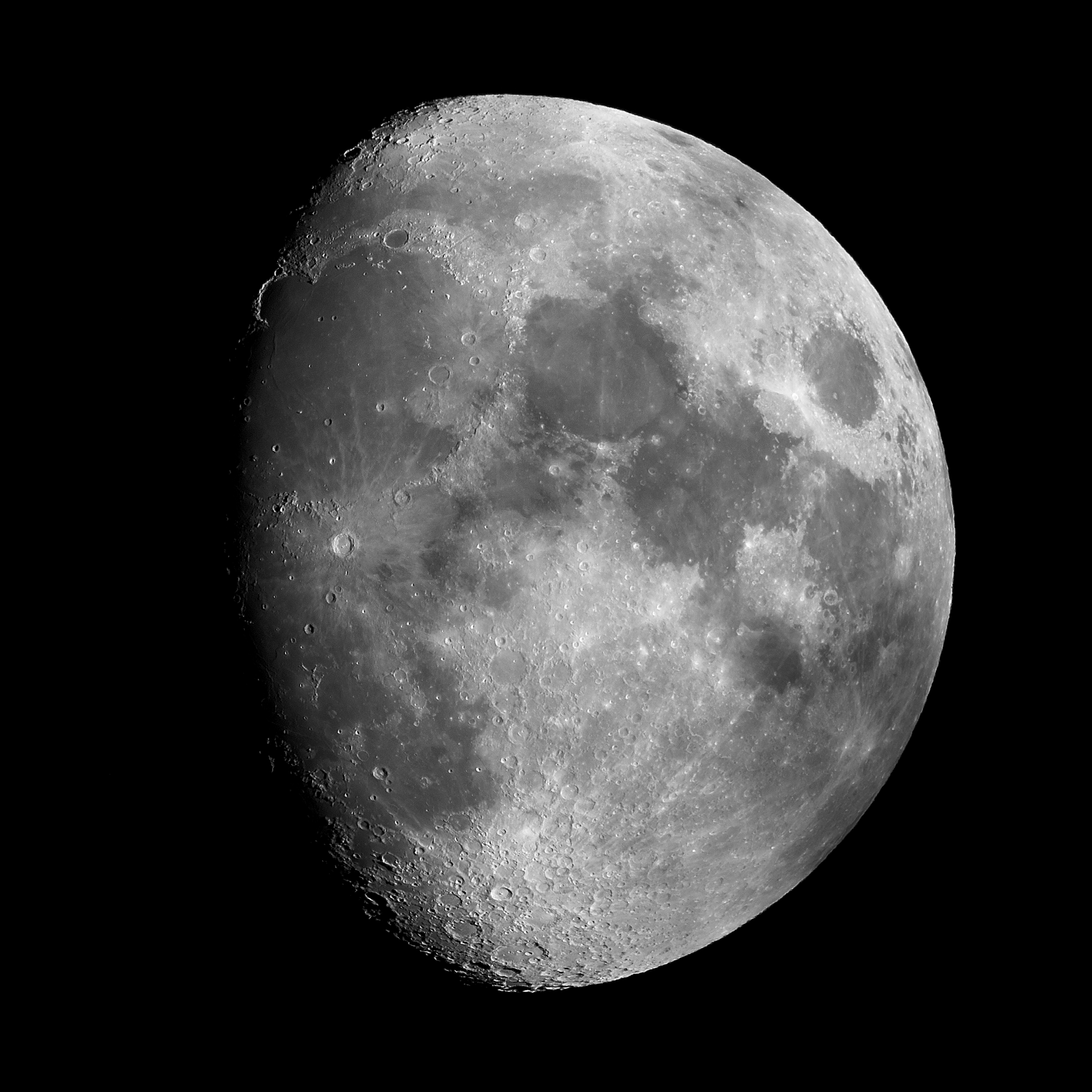 The moon, as seen from Belgium. Image taken with a Nikon D3s and a 600mm F4 lens, with an adapter making a 1680mm F11,2 virtual lens.